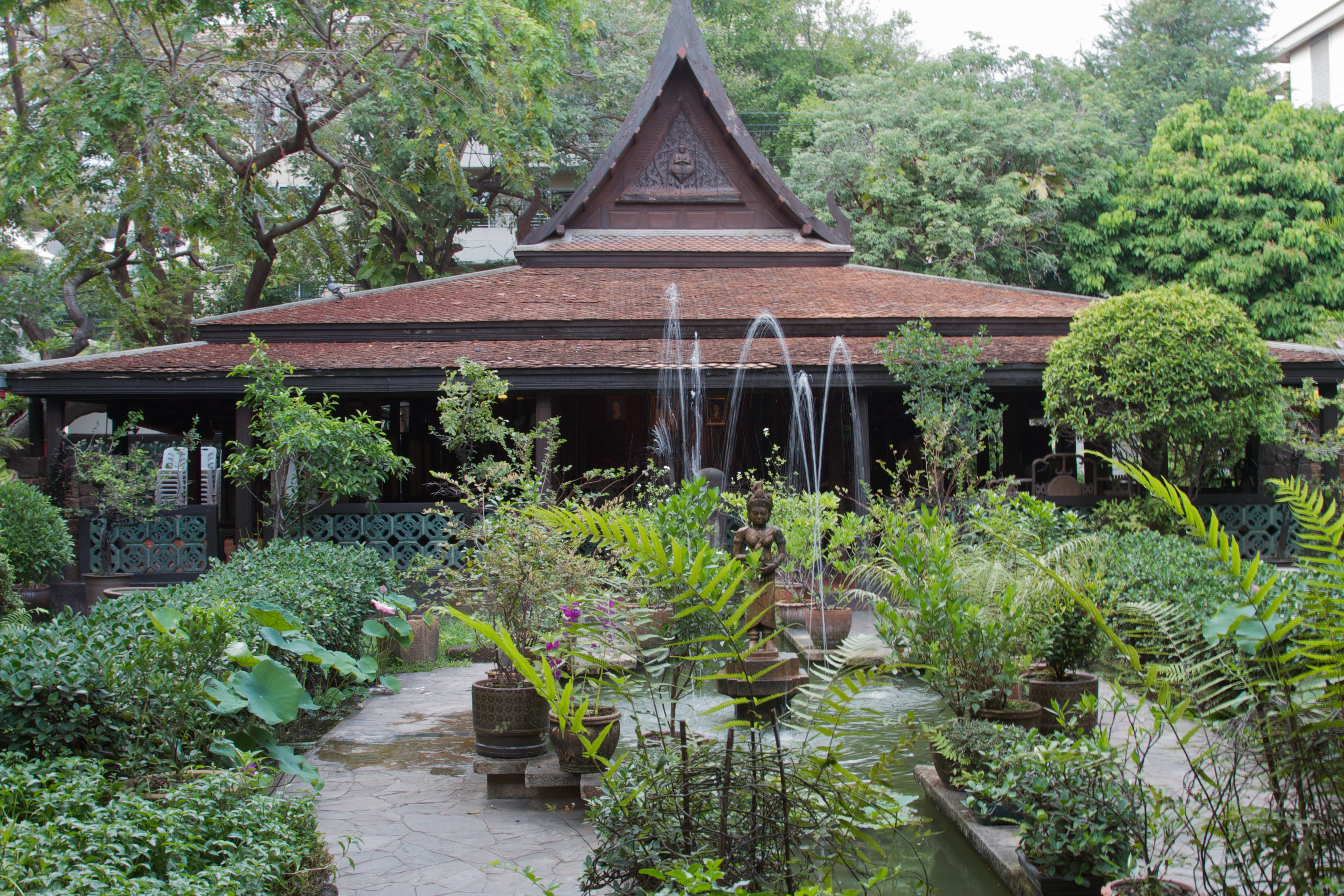 M.R. Kukrit’s Heritage Home is in Sathorn on Soi Prapinit, between Soi Suan Plu and Thanon Narathiwas. He was the Thai Prime Minister from 1974 to 1975.